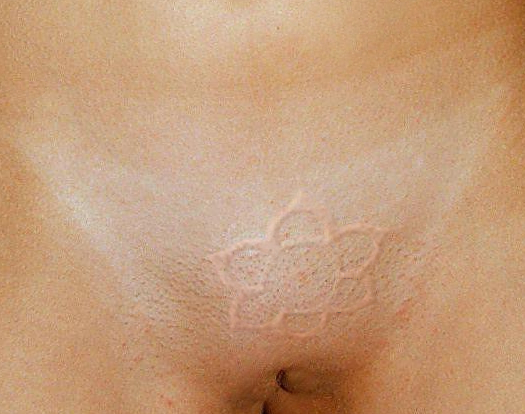 A japanese-style Hanabira scarification